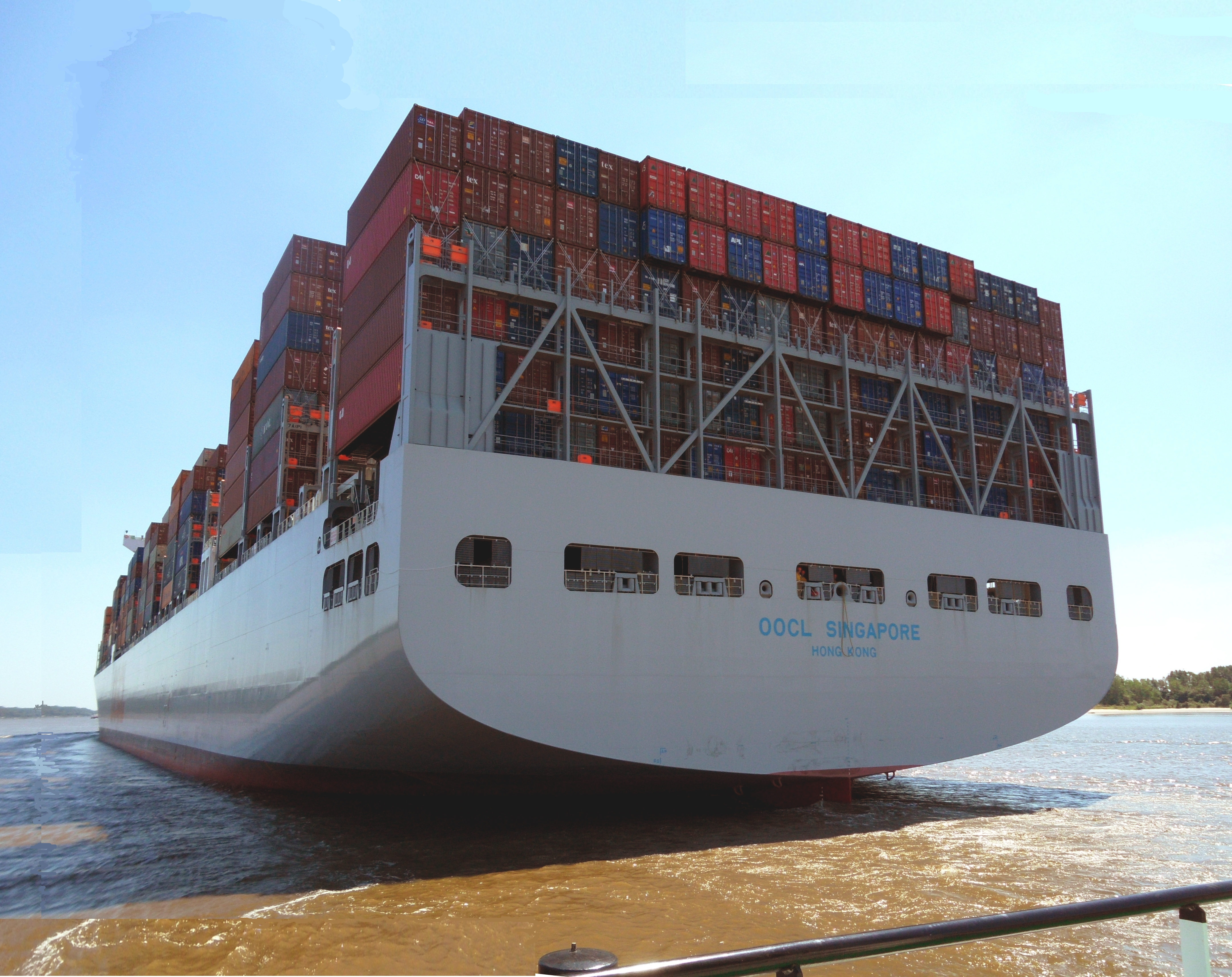 The new container ship OOCL Singapore on her maiden voyage with destination Port of Hamburg